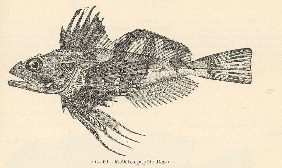 Melletes papillo Bean Subject: Cottidae, Melletes Tag: Fish